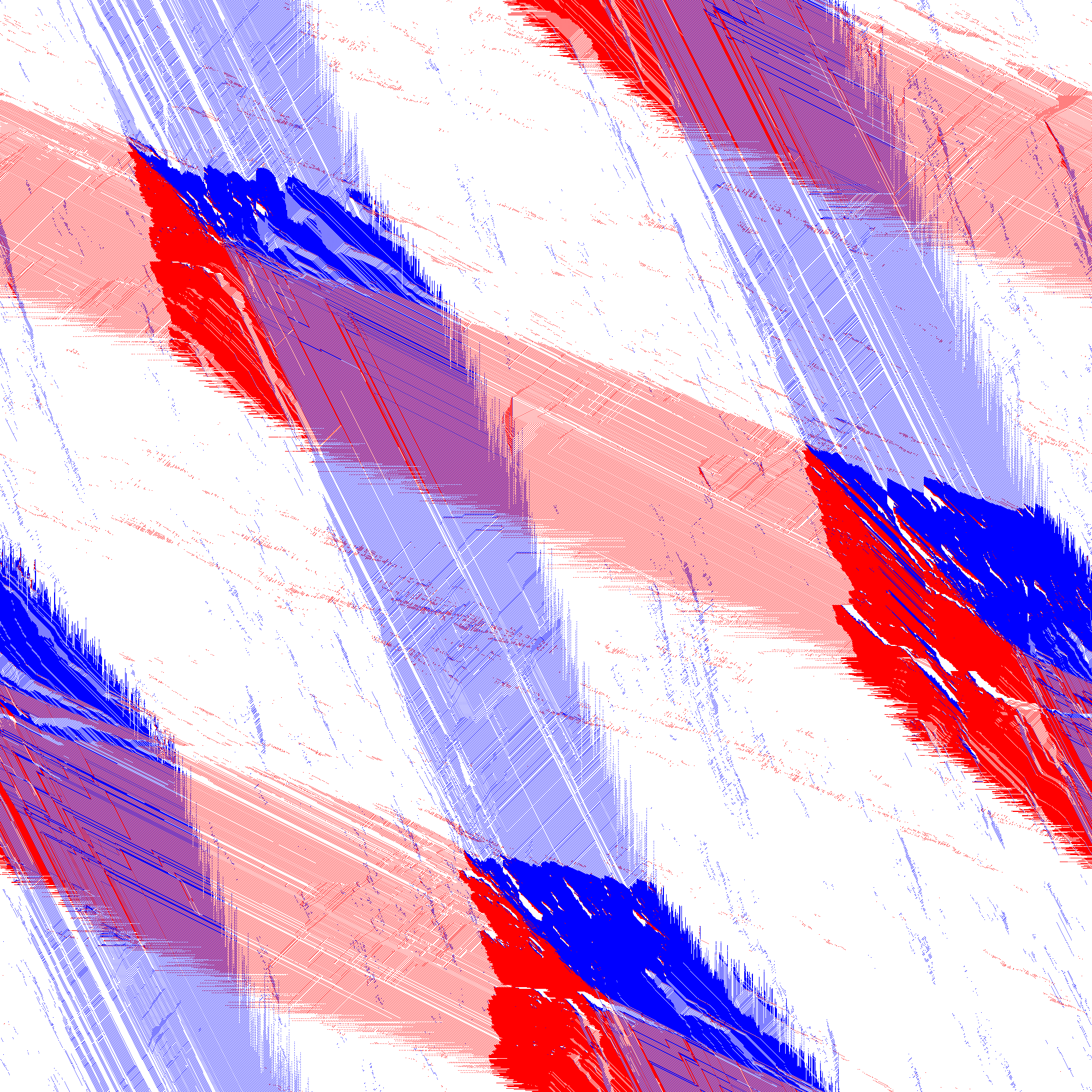 A lattice for the Biham-Middleton-Levine traffic model after 64000 iterations. The lattice is 2000 by 2000, with a traffic density of 31%. The red cars and blue cars take turns to move; the red ones only move rightwards, and the blue ones move downwards. Every time, all the cars of the same colour try to move one step if there is no car in front of it. The model has self-organized into a disordered intermediate phase. The graph of mobility versus time (mobility is the number of cars that can move in a particular turn) is shown at File:Bml x 2000 y 2000 p 31 MOBILITY.png. This was created with C++. Source code is located at user:Purpy Pupple/BML. Because of the very large lattice and the running time is linearly proportional to the number of cells in the lattice (and the number of cells is quadratically proportional to the edge length for a square lattice), this took a ridiculously long time to generate (something like 2 hours on my laptop).